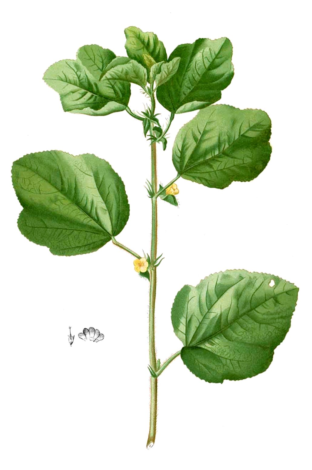 Plate from book